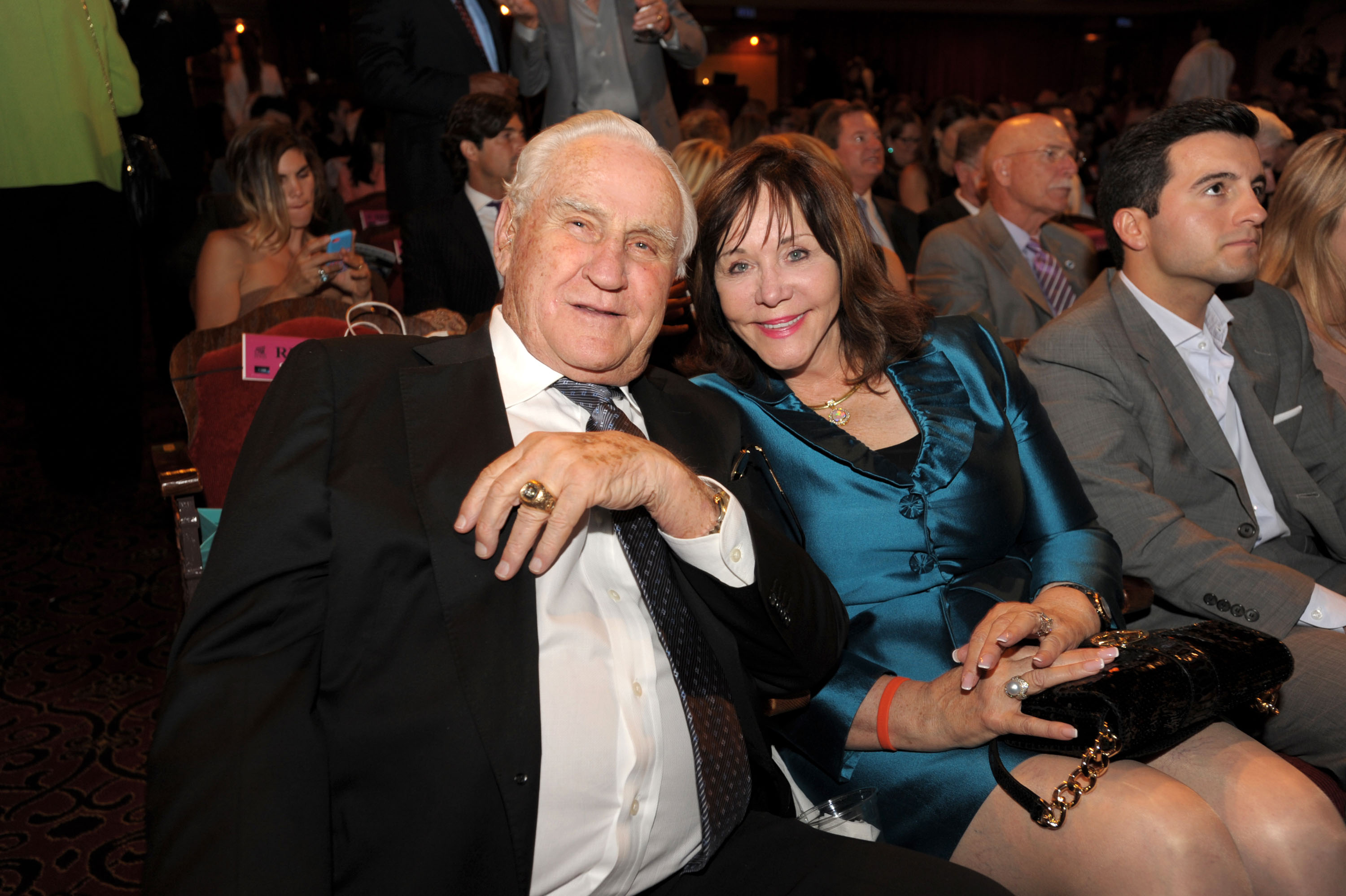 Don Shula & Mary Anne Shula at the 2014 Miami International Film Festival presentation of "An Unbreakable bond" Photo by: World Red Eye